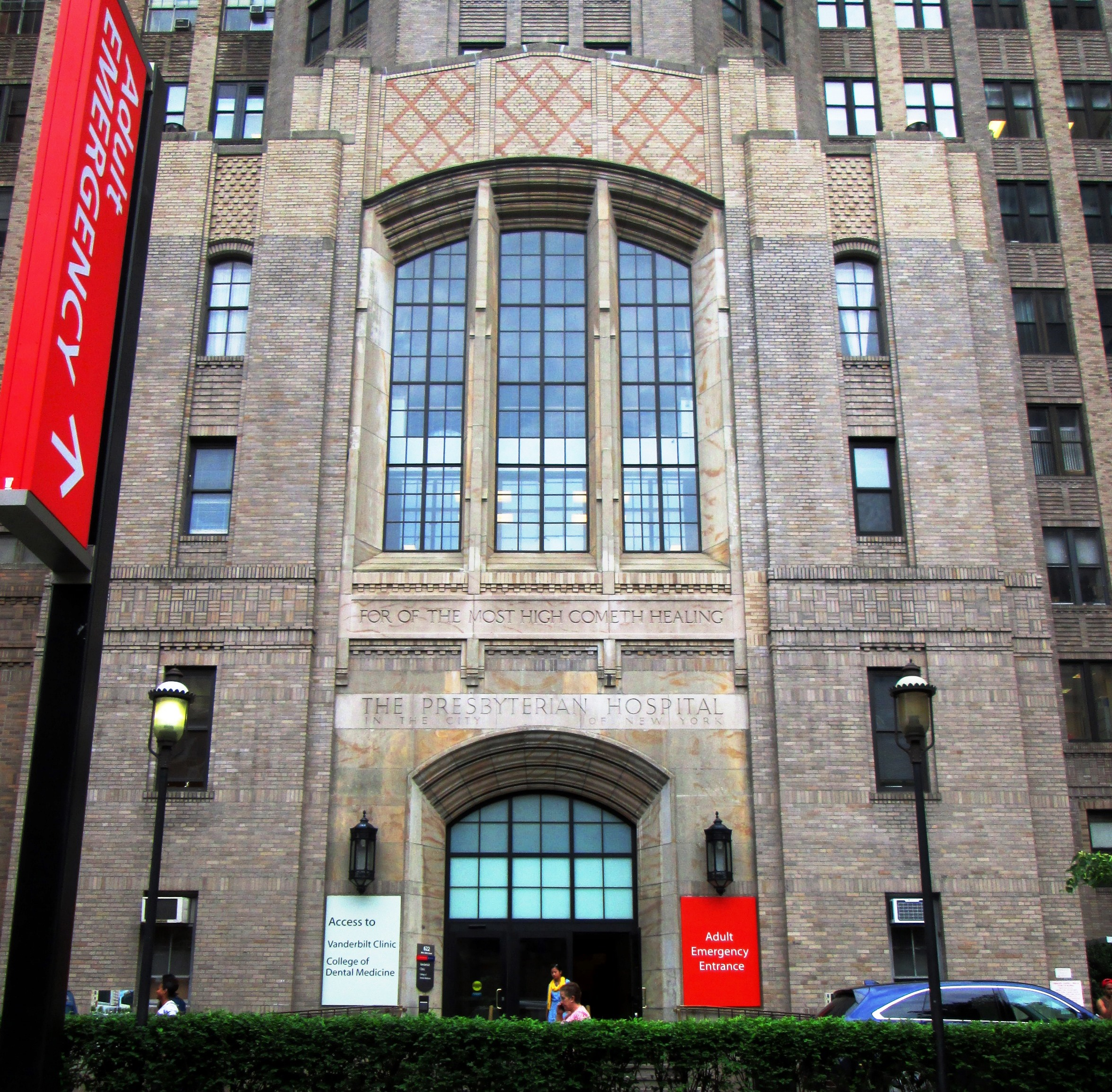 Presbyterian Hospital in New York City was founded in 1868 and was associated with Columbia University's College of Physicians and Surgeons. It moved into the newly created Columbia-Presbyterian Medical Center (now Columbia University Medical Center) in 1928, in a building designed by James Gamble Rogers. It 1998 it merged with New York Hospital to become New York-Presbyterian Hospital. The original main entrance to the hospital, shown in this image, is now the adult emergency service entrance of this campus of New York-Presbyterian.